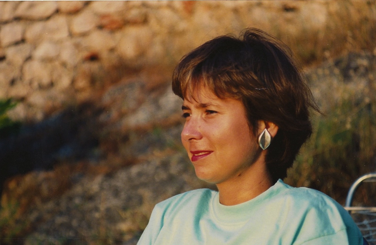 A photo of Madeline Aksich taken at her summer home on an island off the coast of Dubrovnik.